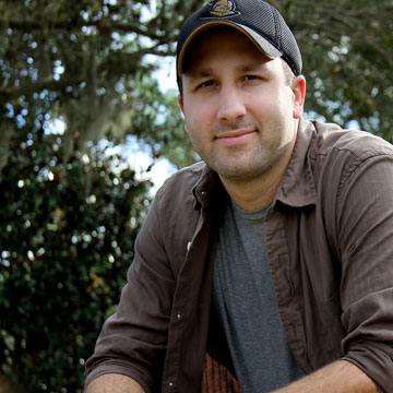 Artist Rob Kaz, headshot